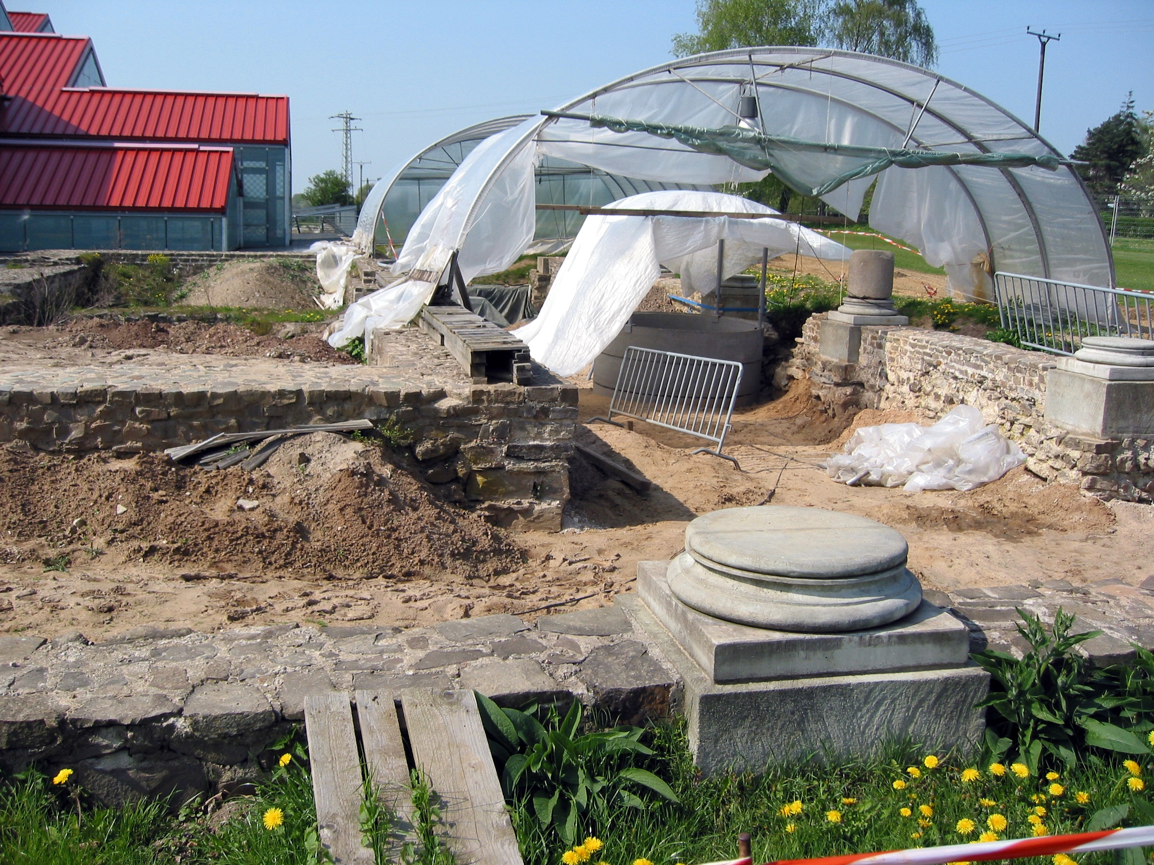 Photo taken April 23, 2005, by Magnus Manske, with expressed verbal permission. Colors/contrast enhanced with Picasa.